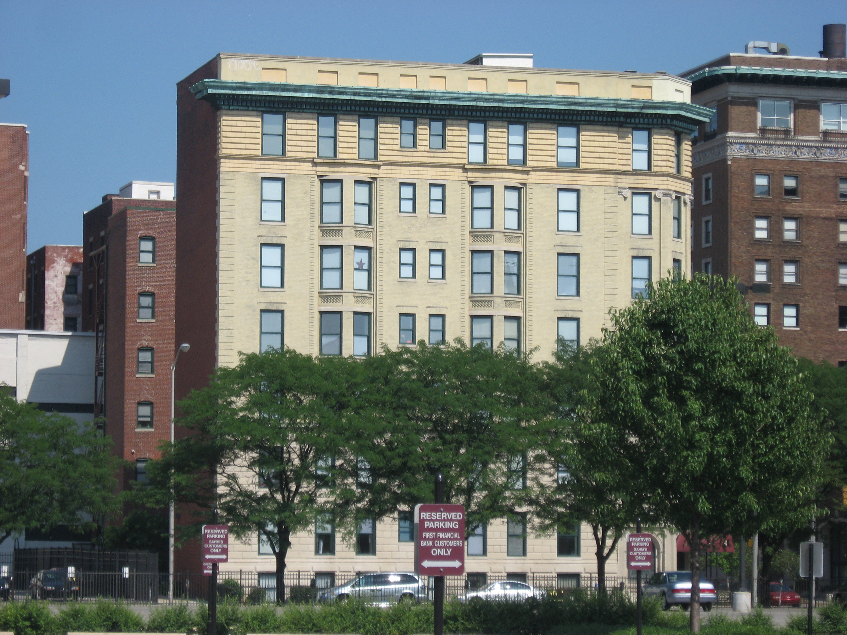 Front of The Rink, located at 401 N. Illinois Street in Indianapolis, Indiana, United States. Built in 1901, it is listed on the National Register of Historic Places as one of the "Apartments and Flats of Downtown Indianapolis Thematic Resources".